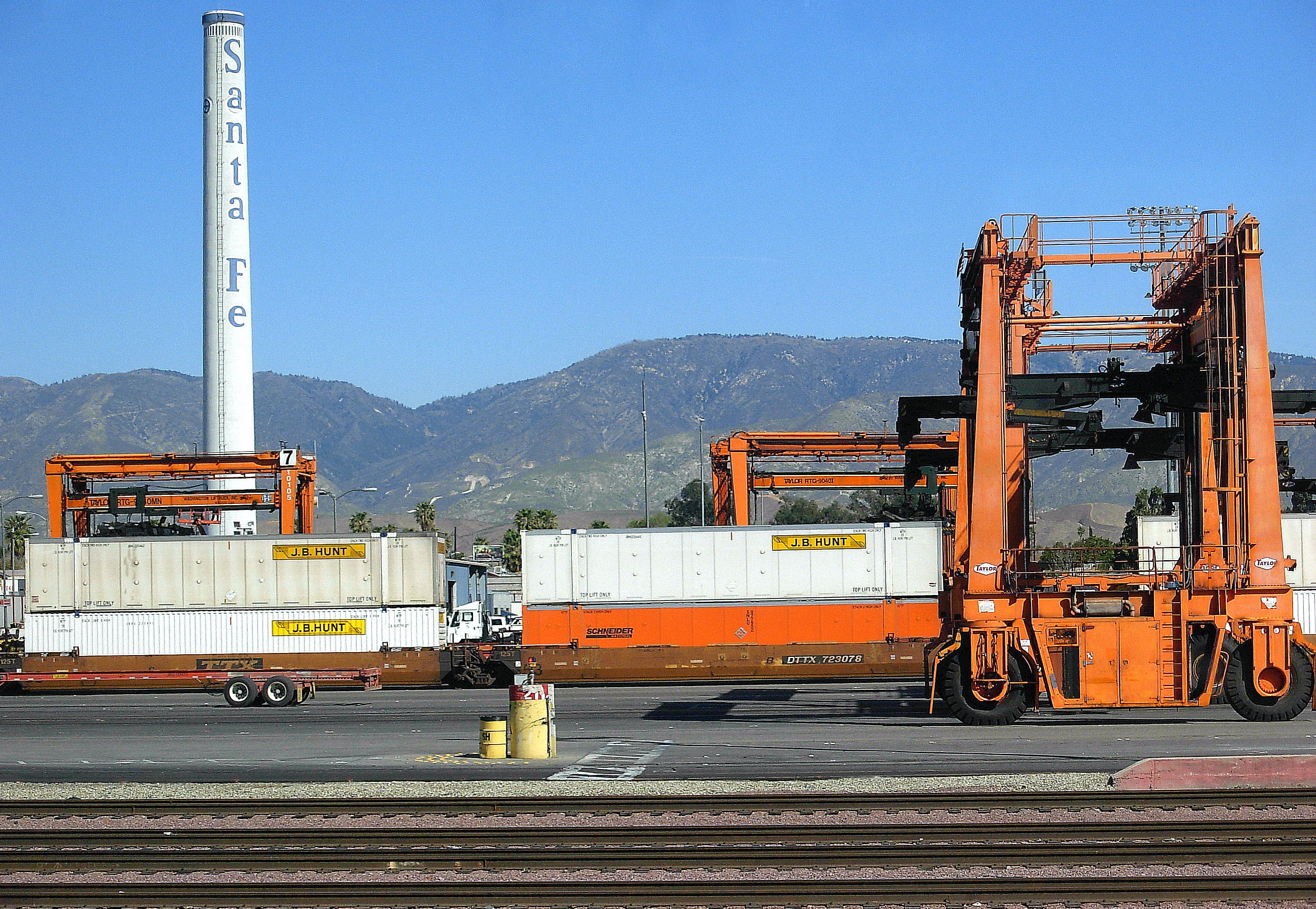 Some random, orange, heavy machinery and a smokestack-like thing. What more could you want?